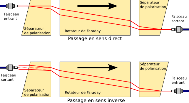 Operating diagram of an optical isolator independant of the polarisation.